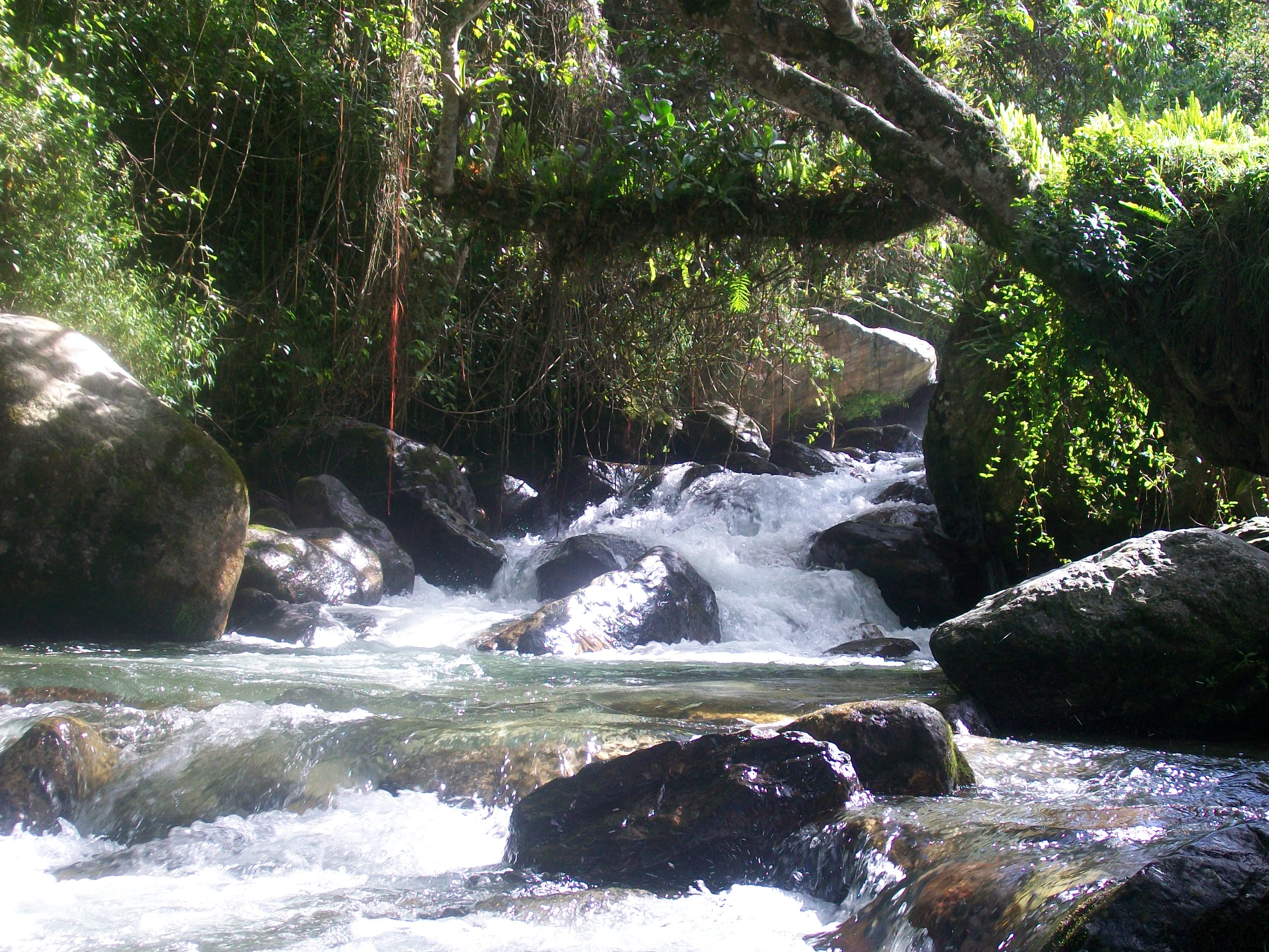 Chama River, Venezuela.